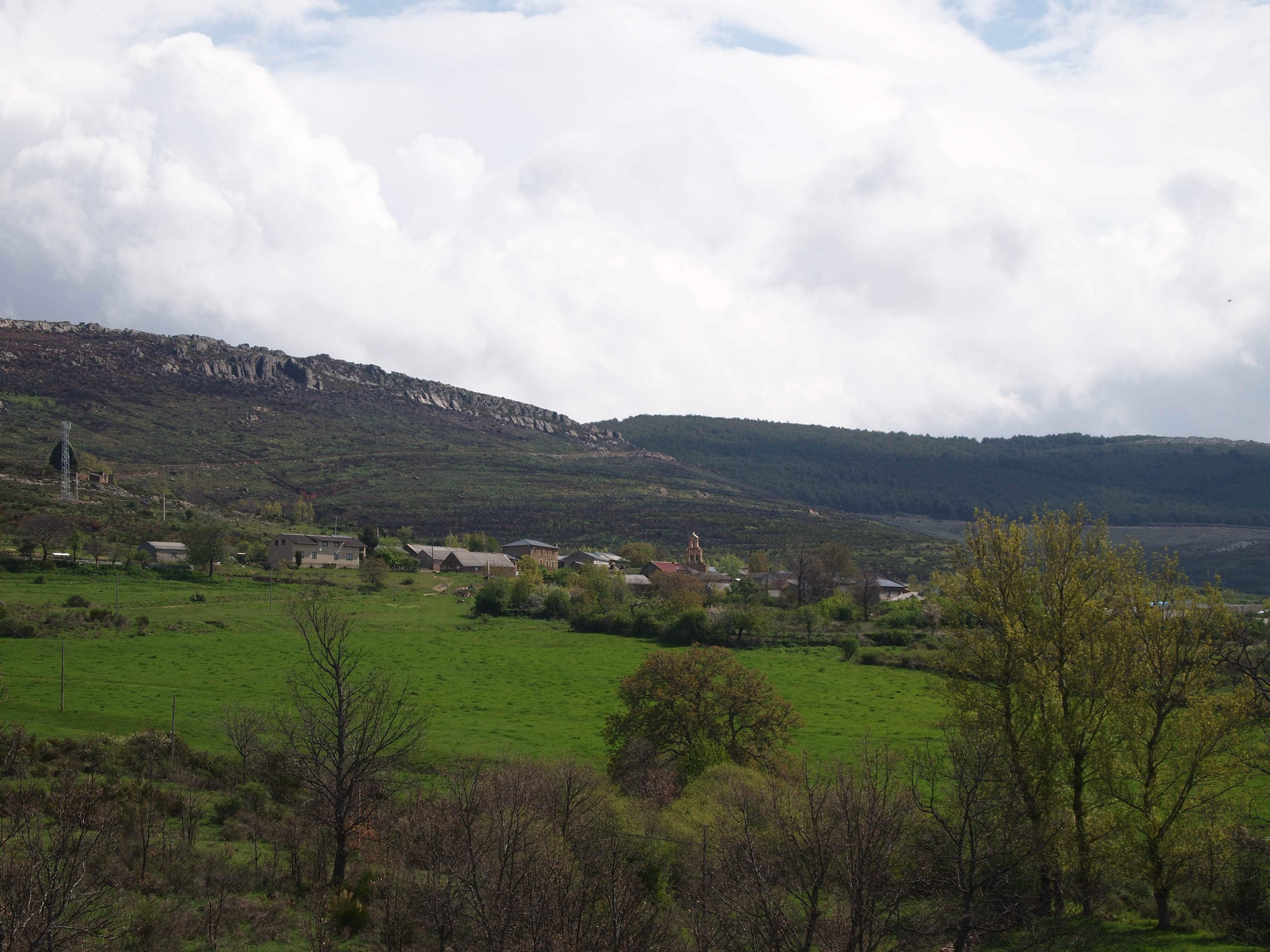 The spanish village of Cunas (Municipality of Truchas, province of León)